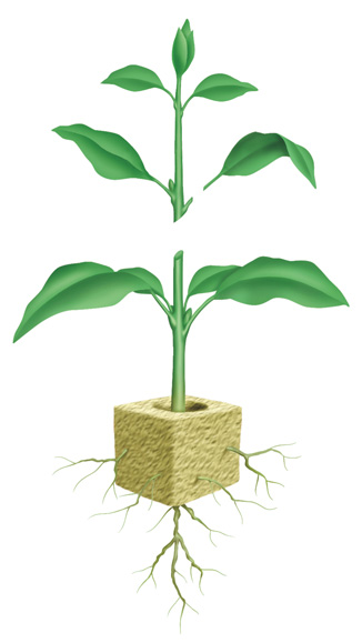 Schematic showing a plant cutting